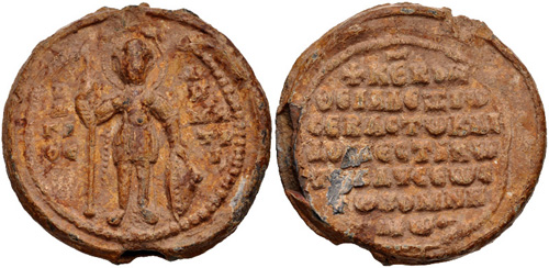 Alexius I Comnenus. As Sebastos and Megas Domestikos of the Occident, 1078-1081. PB Seal (34mm, 31.14 g, 11h). St. Demetrius standing facing, wearing nimbus crown and holding spear and shield; O/A/ΓI/OC Δ/H/MH/TP/I across field / + KЄPON/ӨЄI AΛЄΞIω/CЄBACTω KAI/ΔωMЄCTIKω/THC ΔVCЄωC/Tω KOMNH/·Nω·. BLS I 2707; DOCBS I 1.16. VF, scrape and edge flaw on reverse.